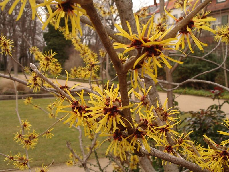 Witch-hazel in the Fürth Stadtpark (Germany)